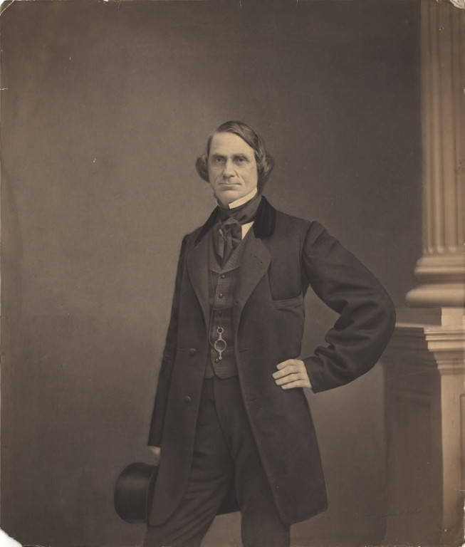 Portrait of Henry Washington Hilliard, by Mathew Brady, Alabama Department of Archives and History